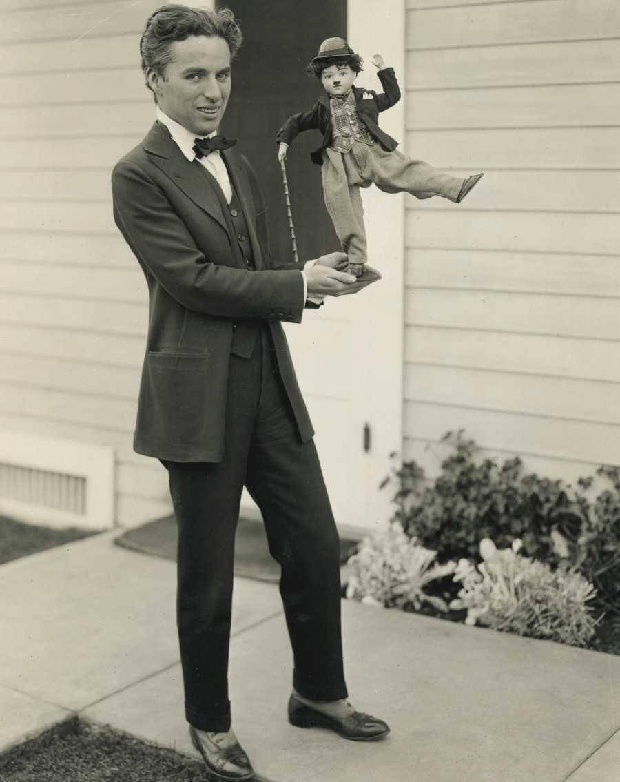 Charlie Chaplin, 1917